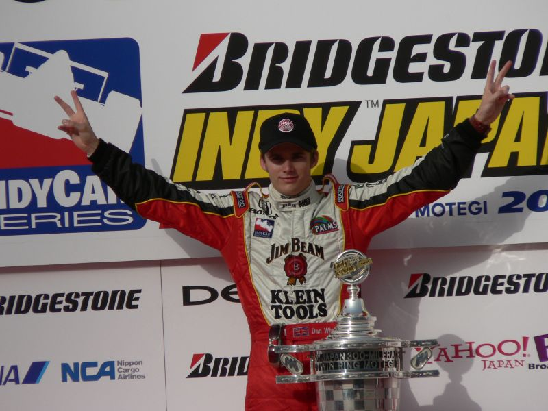 Indy Japan 300 @ Twin Ring Motegi Winner Dan Wheldon